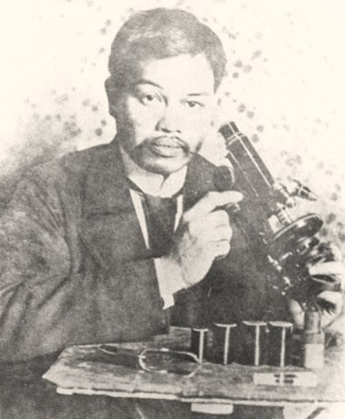 Antonio Luna poses with a microscope at the Institut Pasteur in Paris, France. Picture was taken in the early 1890's.